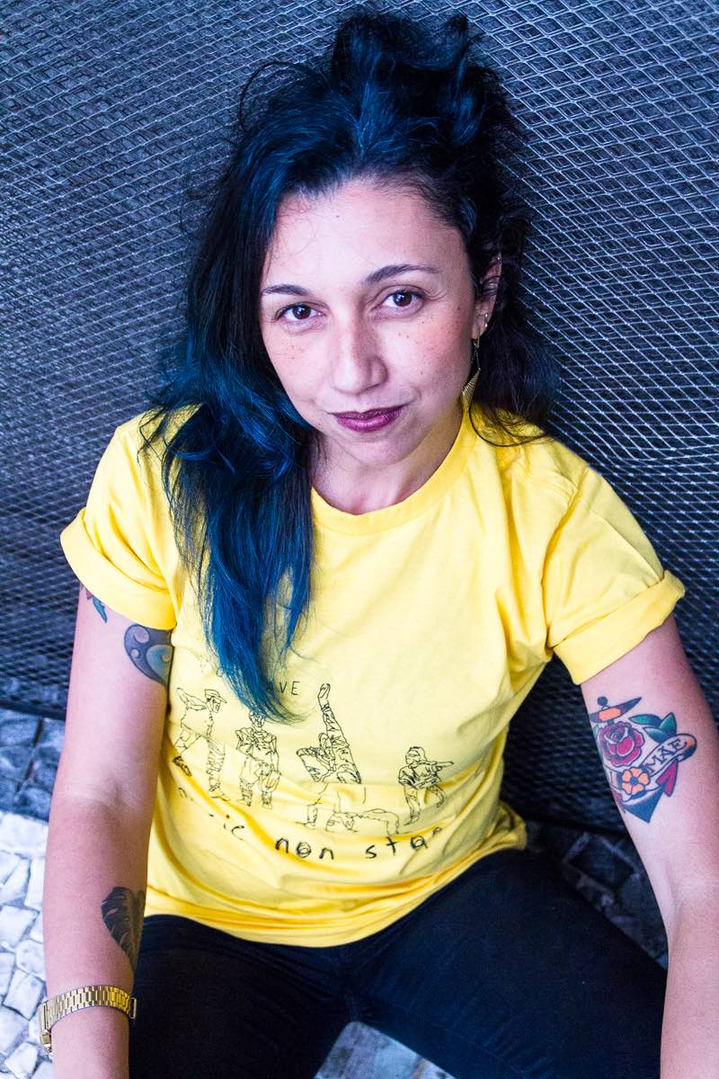 writer